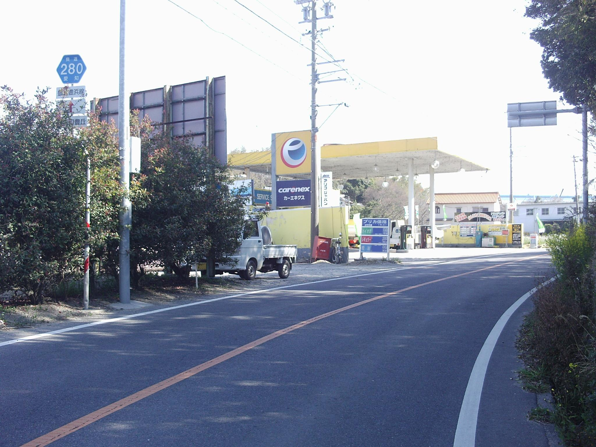 Starting Point of Aichi prefectural road No.280 in Toyooka, Minamichita-cho, Chita-gun, Aichi.